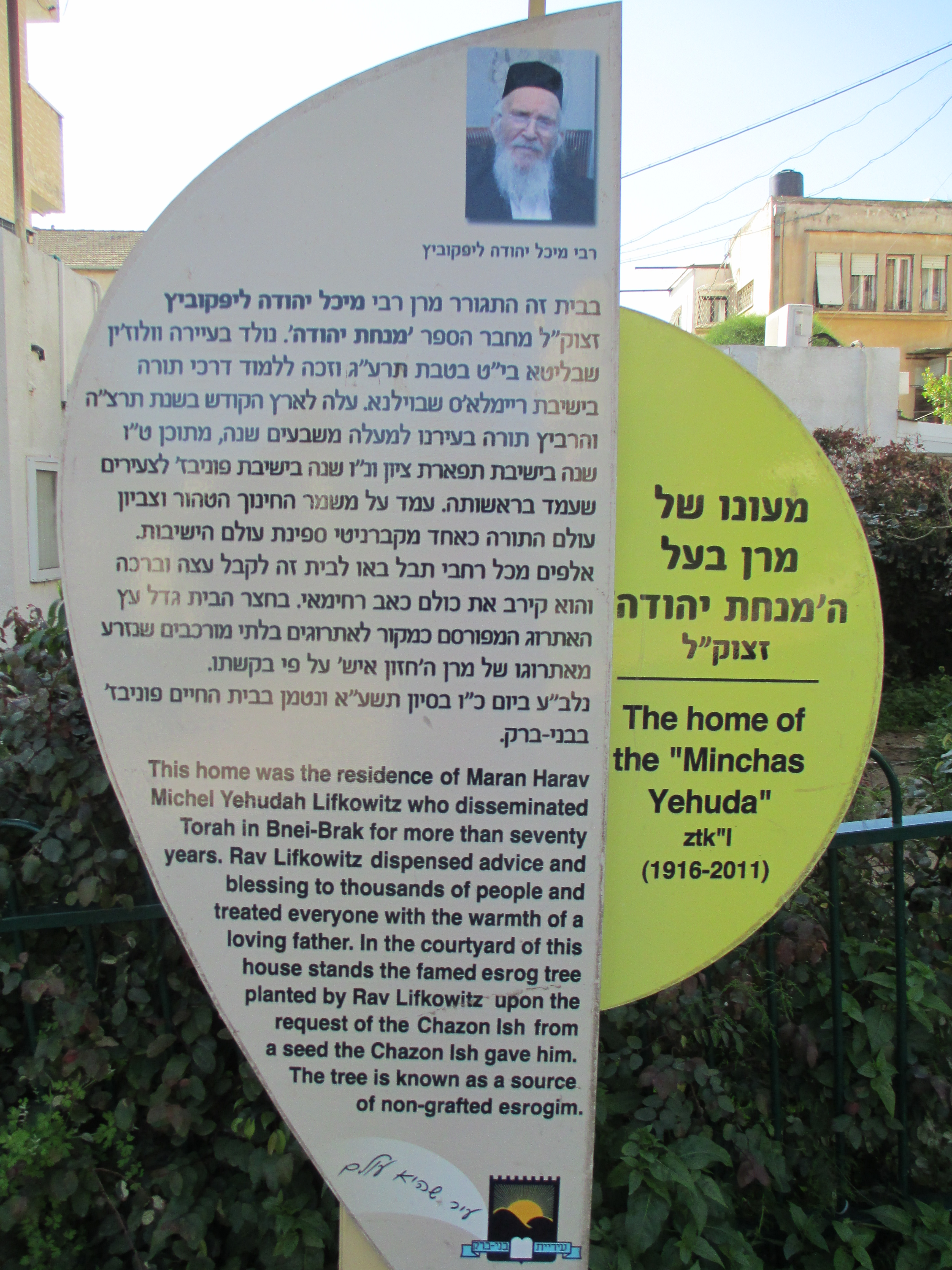 memorial plaque to rabbi lifkowitz in bnei brak לוחית זיכרון לרב מיכל יהודה ליפקוביץ ברח' וילקומירר 4 בבני ברק